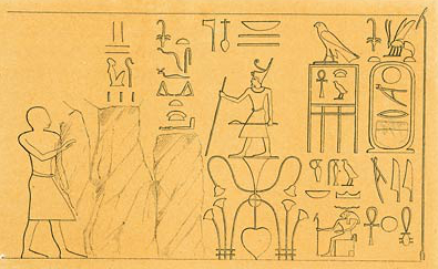 Rock inscription near Aswan showing king Merenra I receiving the submission of the lower Nubian rulers.